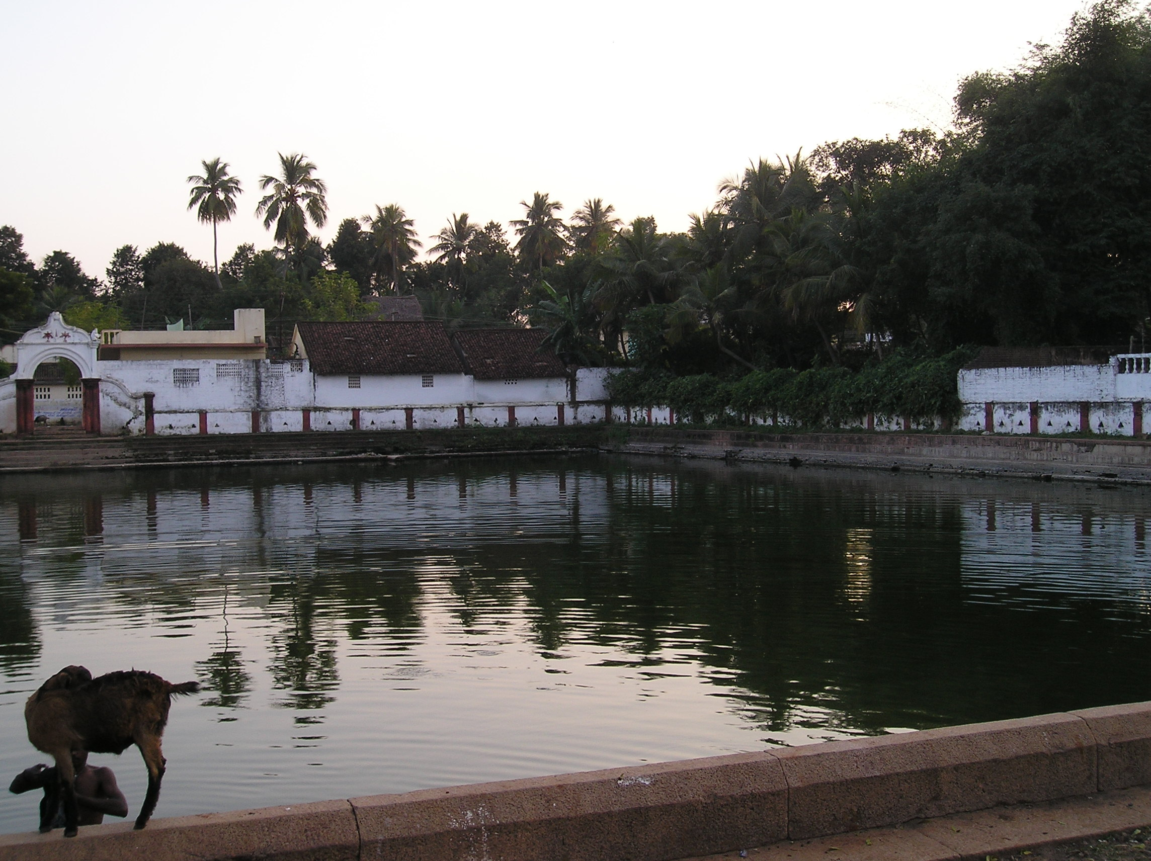 Parimala Ranganathar